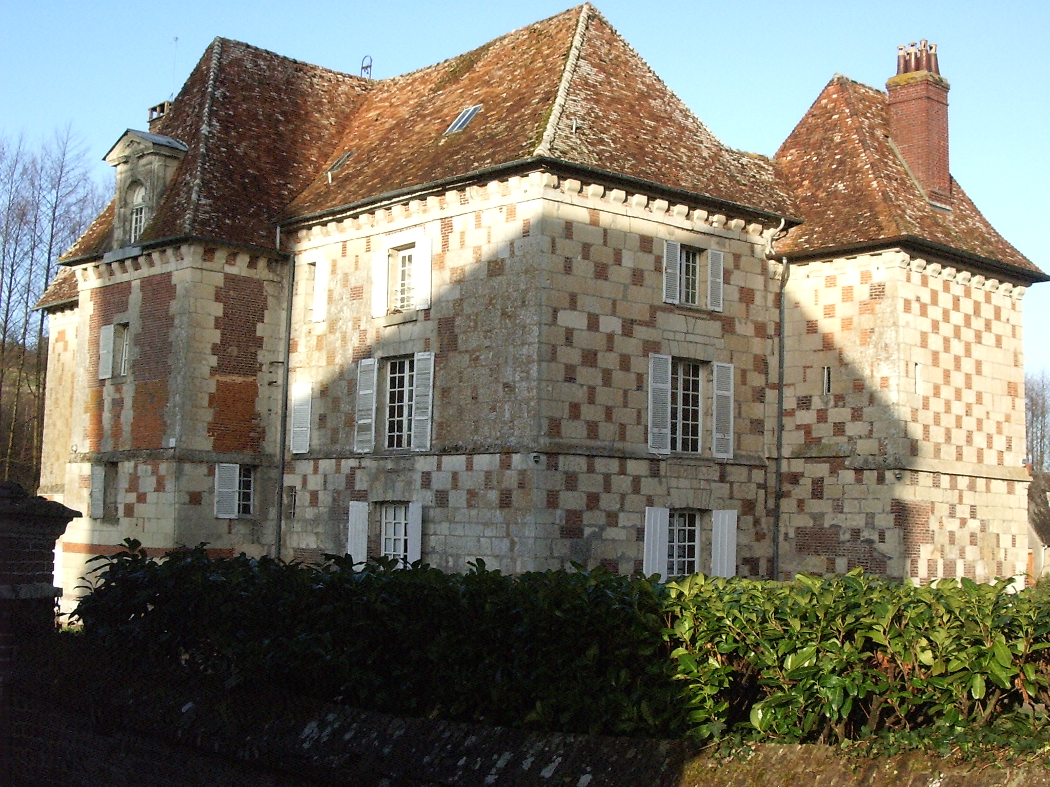 Castle of Hermival-les-Vaux (Calvados, France). Template:Château d'Hermival-les-Vaux (Calvados, France), inscrit à l'inventaire supplémentaire des monuments historiques (ISMH, 19/01/1927).